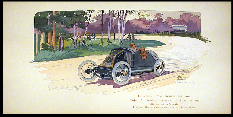 "La Voiture Th. Schneider, 1912 gagne à Dieppe Dinant et à la Sarthe vitesse et régularité / Magneto Bosch Corburateur Claudel Roues RileyParis: Mabileau & Co., 1912. Hand-coloured pochoir print. Image size (including text): approximately 14 3/4 x 27 1/4 inches. Sheet size: approximately 17 3/8 x 35 1/2 inches. Theophile Schneider, formerly of the Rochet/Schneider Company, began building his own cars in 1910. This car, a 2.8 litre 4 cylinder model, had an unusual radiator placement, on the dashboard. All pre-1914 Schneiders were built in this way."